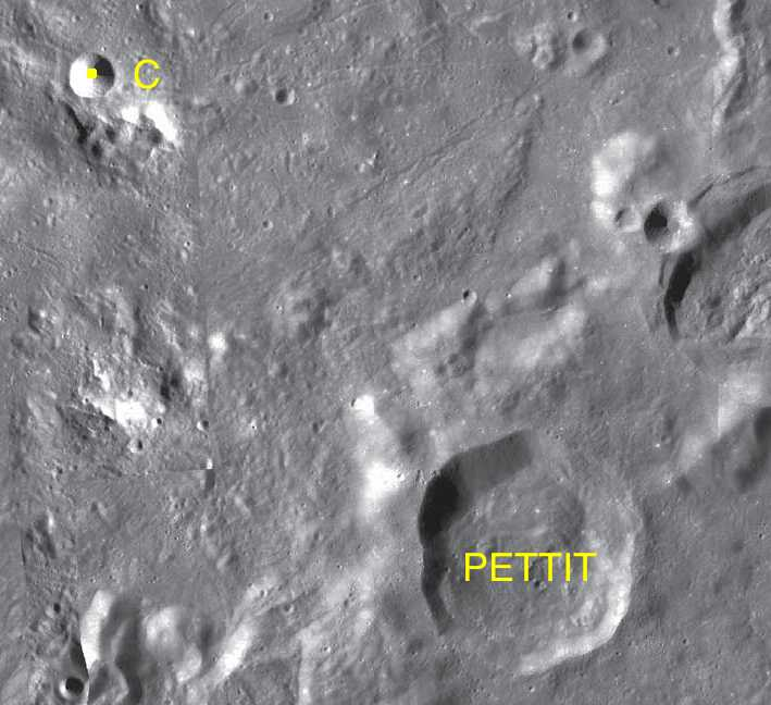 Part of the chart LAC-91 used for the presentation.